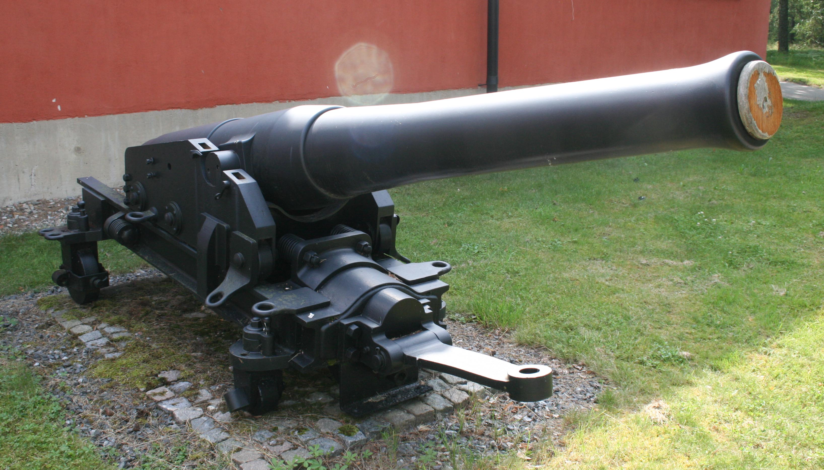 Gun of the Disa or Rota gunboat